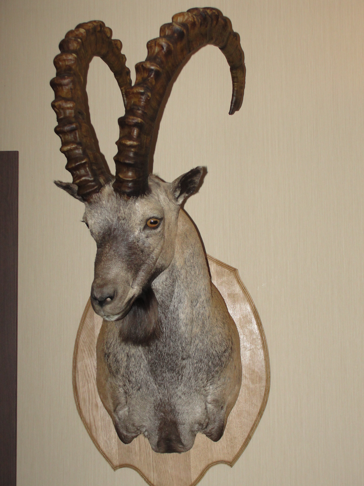 Stuffed head of a Siberian ibex shot in Mongolia